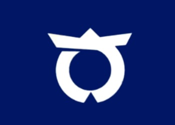 Flag of Samegawa Fukushima